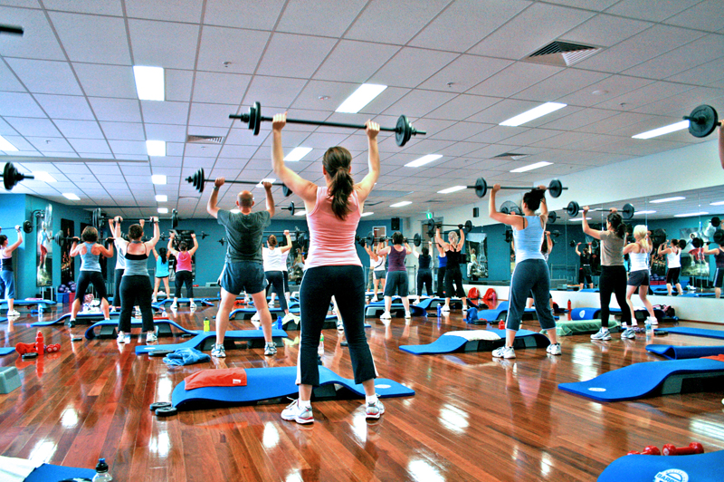 Barbell Group Fitness Class